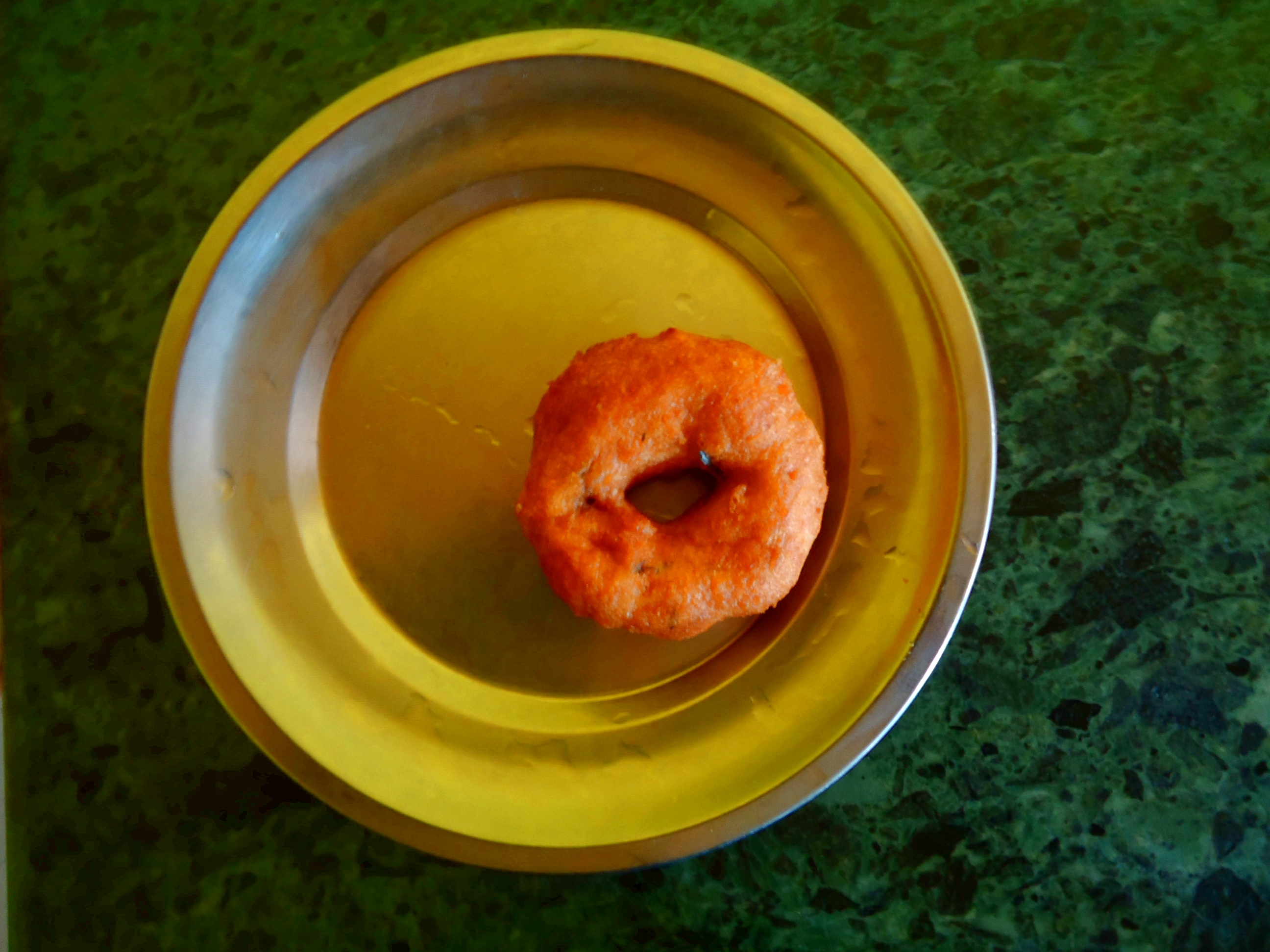 Uzhunnuvada